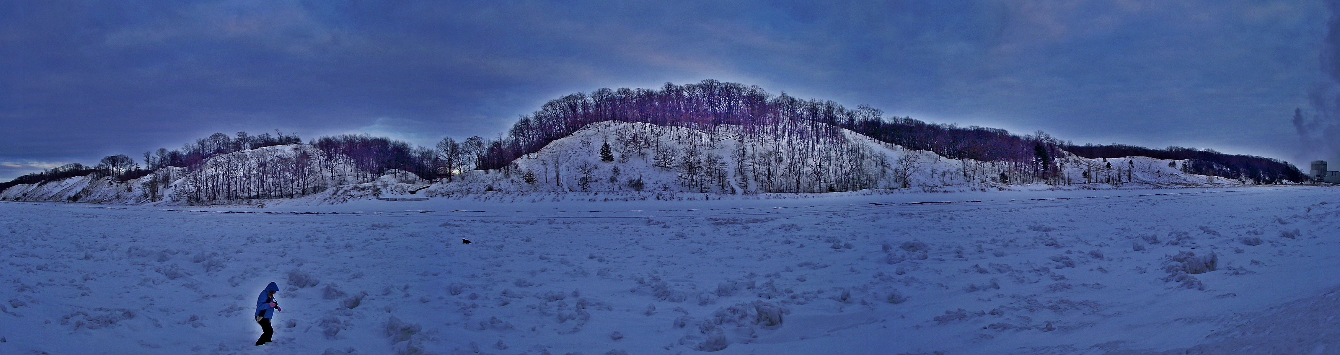 Sand Dunes on Lake Michigan, Van Buren State Park, Michigan USA